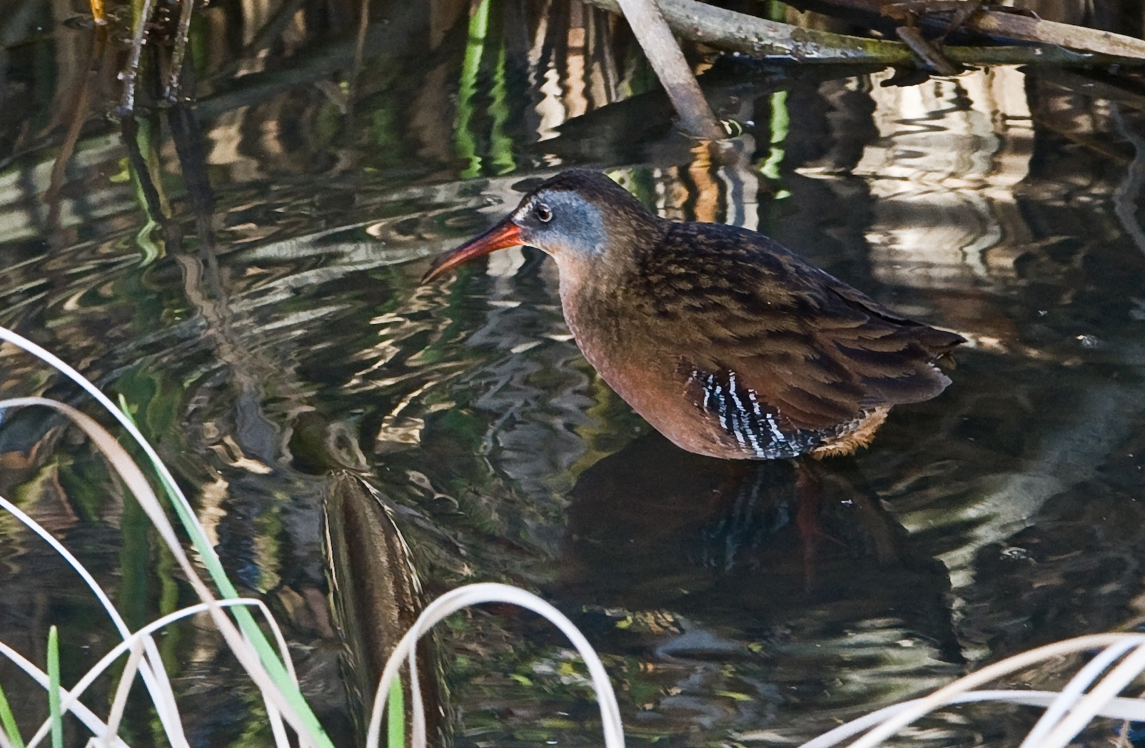 Virginia Rail (Rallus limicola) waterbird Rallidae in the Cloisters City Park pond, Morro Bay, CA 27 Feb 2008. Photo by Michael "Mike" L. Baird Canon 1d Mark III w/ 70-200 f/2.8 lens at 170mm handheld braced on wooden railing. (ISO 1000) 1/60th f/11 -1/3EV.